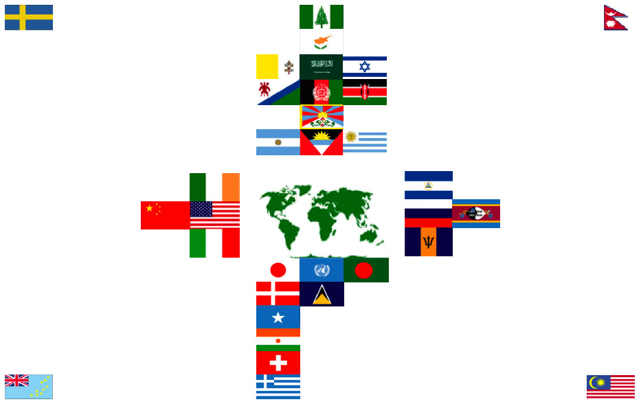 The_world_flag_symbolism